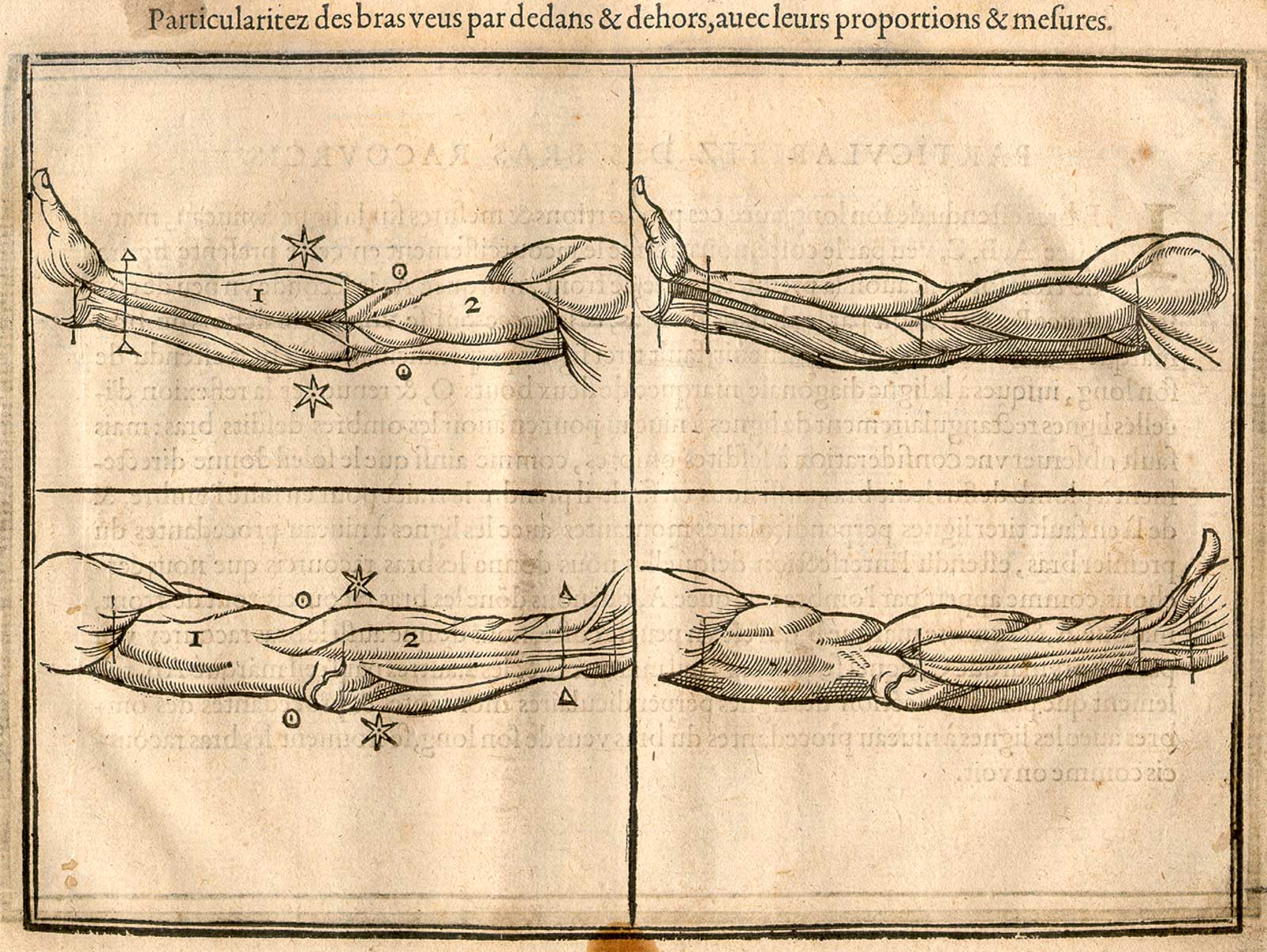 Arm muscles.